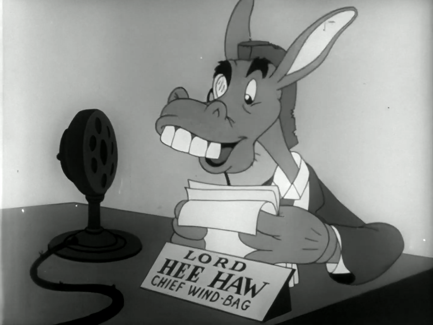 Still frame from the 1943 Allied propaganda cartoon "Tokio Jokio", depicting Nazi collaborationist radio announcer William Joyce, also known as "Lord Haw Haw", as an athropomorphic donkey identified as "Lord Hee Haw, Chief Windbag".